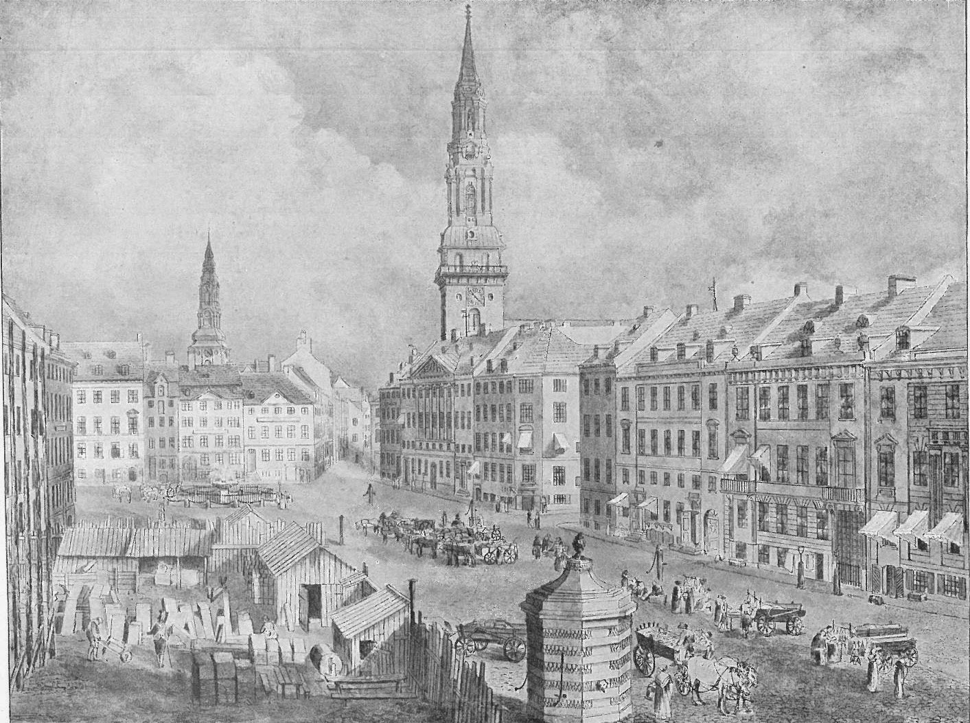 The merged Gammeltorv-Nytorv in Copenhagen, Denmark. After the Fire of 1795 but before the Brittish bombardement in 1807.